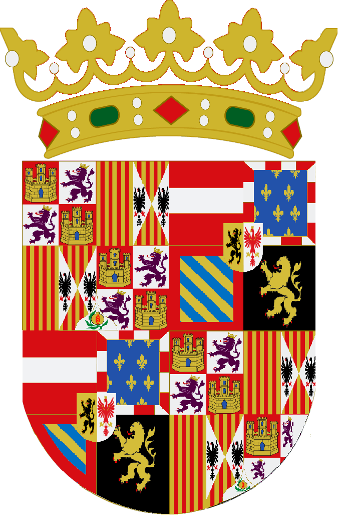 Joanna of Castile as Castilian Monarch